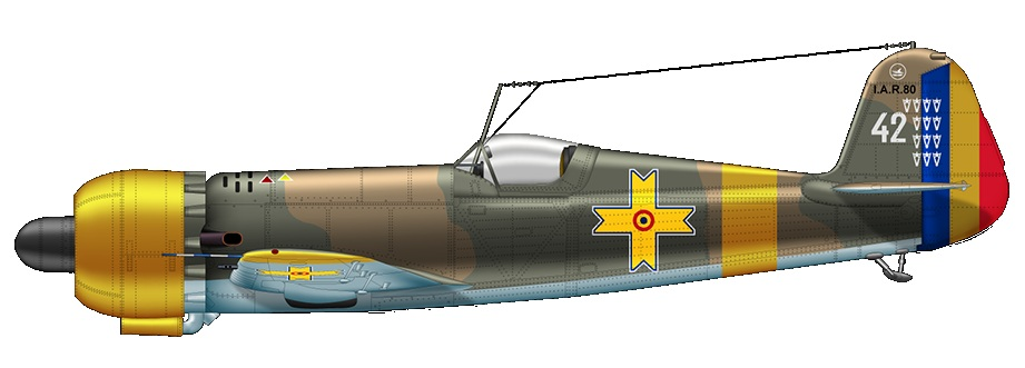 IAR-80 Group 8 Fighters, Eastern Front